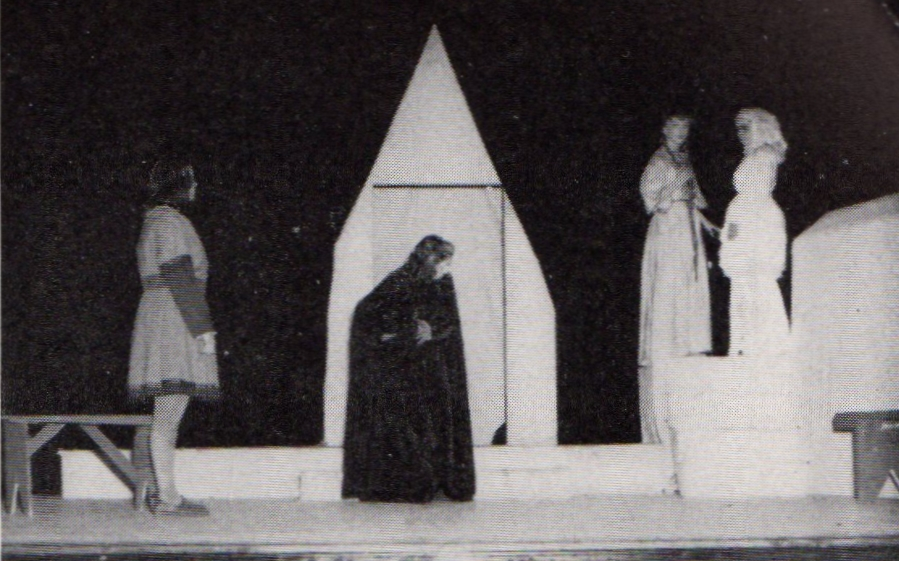 Photograph of a performance of The King's Henchman at Shimer College in 1947-1948, from the 1948 yearbook of Shimer College. Captioned "come out and meet the King," the photo shows the scene in which Aelfrida appears before Eadgar. Now a liberal arts college in Chicago with a Great Books curriculum, Shimer was then a four-year women's junior college in Mount Carroll, Illinois; consequently, all parts were played by women. Published in the school's 1948 yearbook, which does not contain a copyright notice. Additionally in the public domain due to the terms of dedication of the Shimer College Collection (which includes a copy of this yearbook) to NIU in 1979, which vested literary rights in the collection in the public.